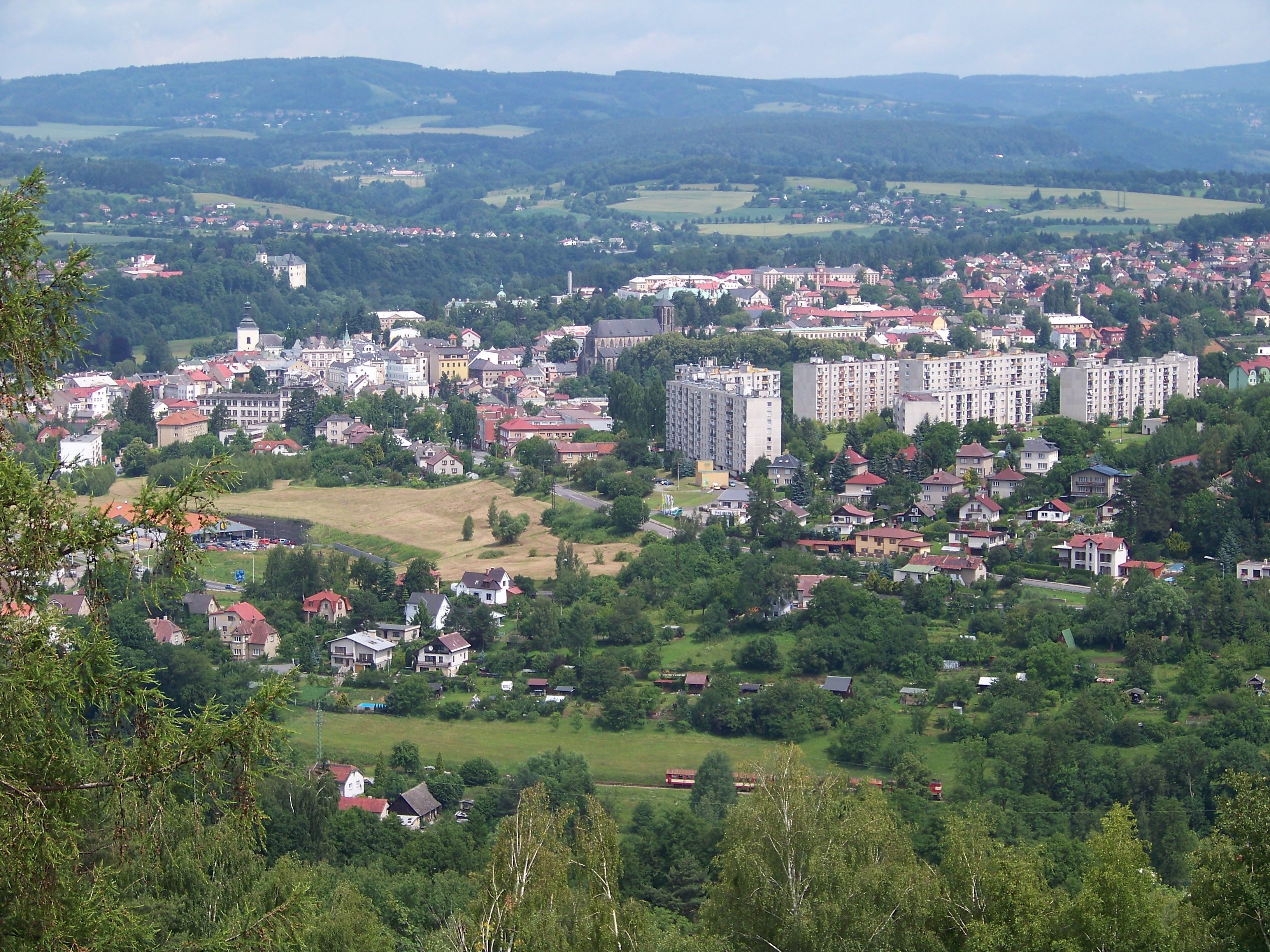 Turnov, Liberec Region, the Czech Republic. View of Turnov from Hlavatice Tower.